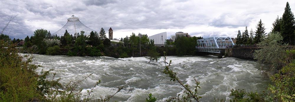 View of the Upper Spokane Falls racing through Riverfront Park